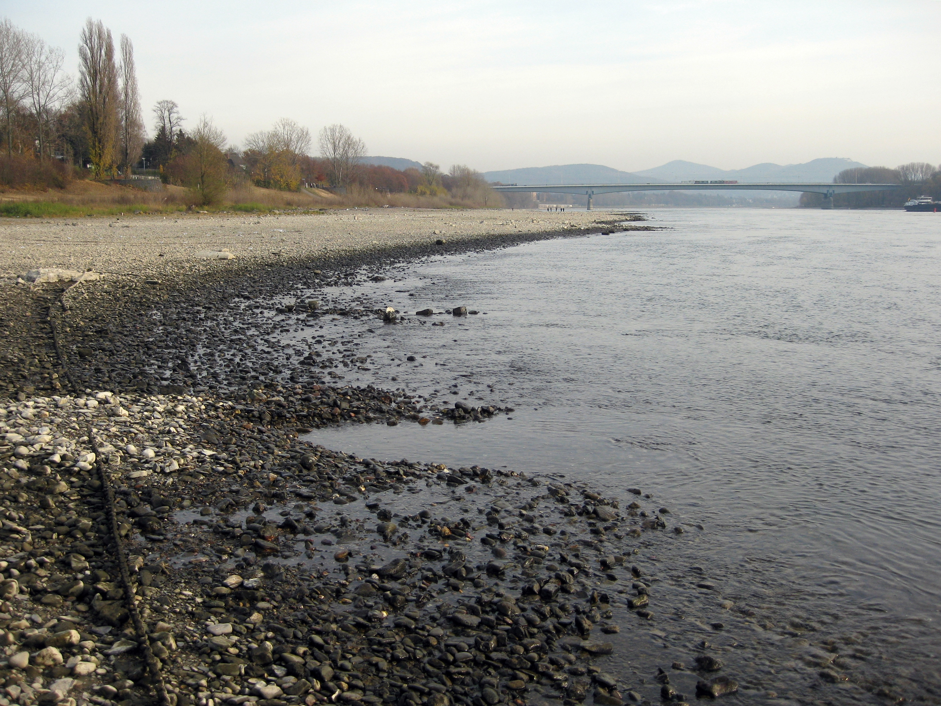 Germany, Bonn-Limperich: View from the river bed of the Rhine at the Konrad-Adenauer-Rhine bridge and the Siebengebirge (means: Seven Mountains) at an extremely low level of the Rhine. At the Right there's the red marker outside of the narrow fairway.